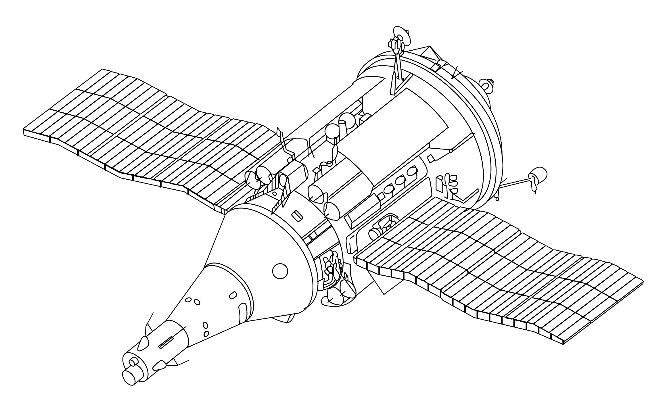 A diagram showing the orbital configuration of the Soviet TKS crew delivery/cargo spacecraft.